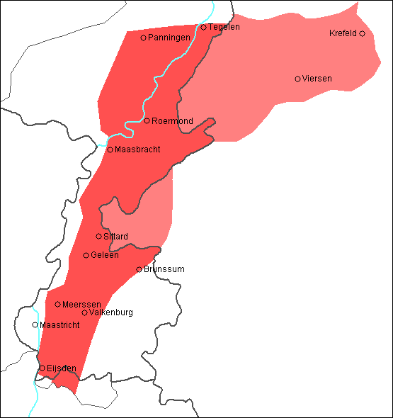 Outline of Oost-Limburgs (East Limburgish) dialect